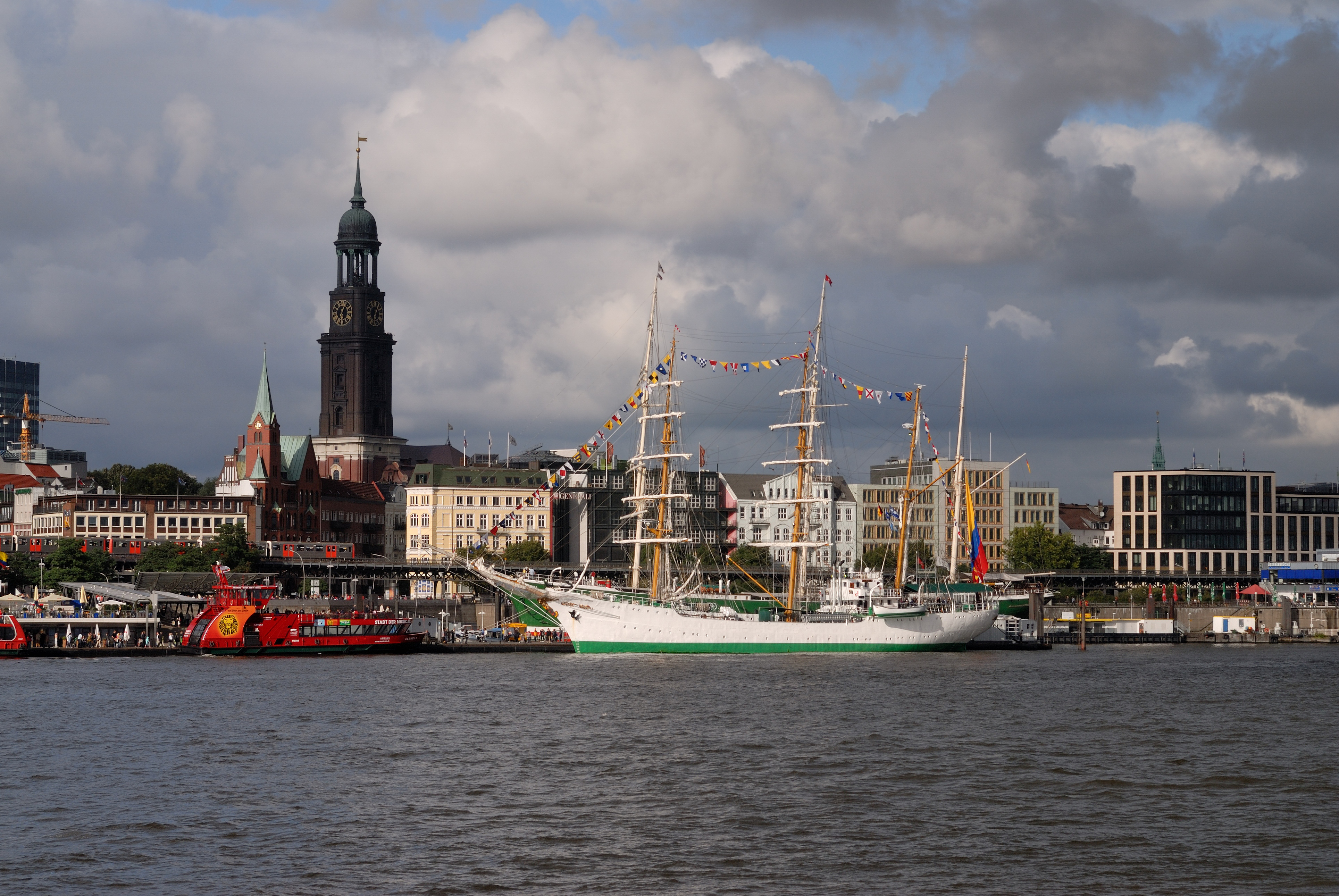 Church St. Michaelis, Hamburg - in the foreground training ship "Gloria" of the Colombian Navy